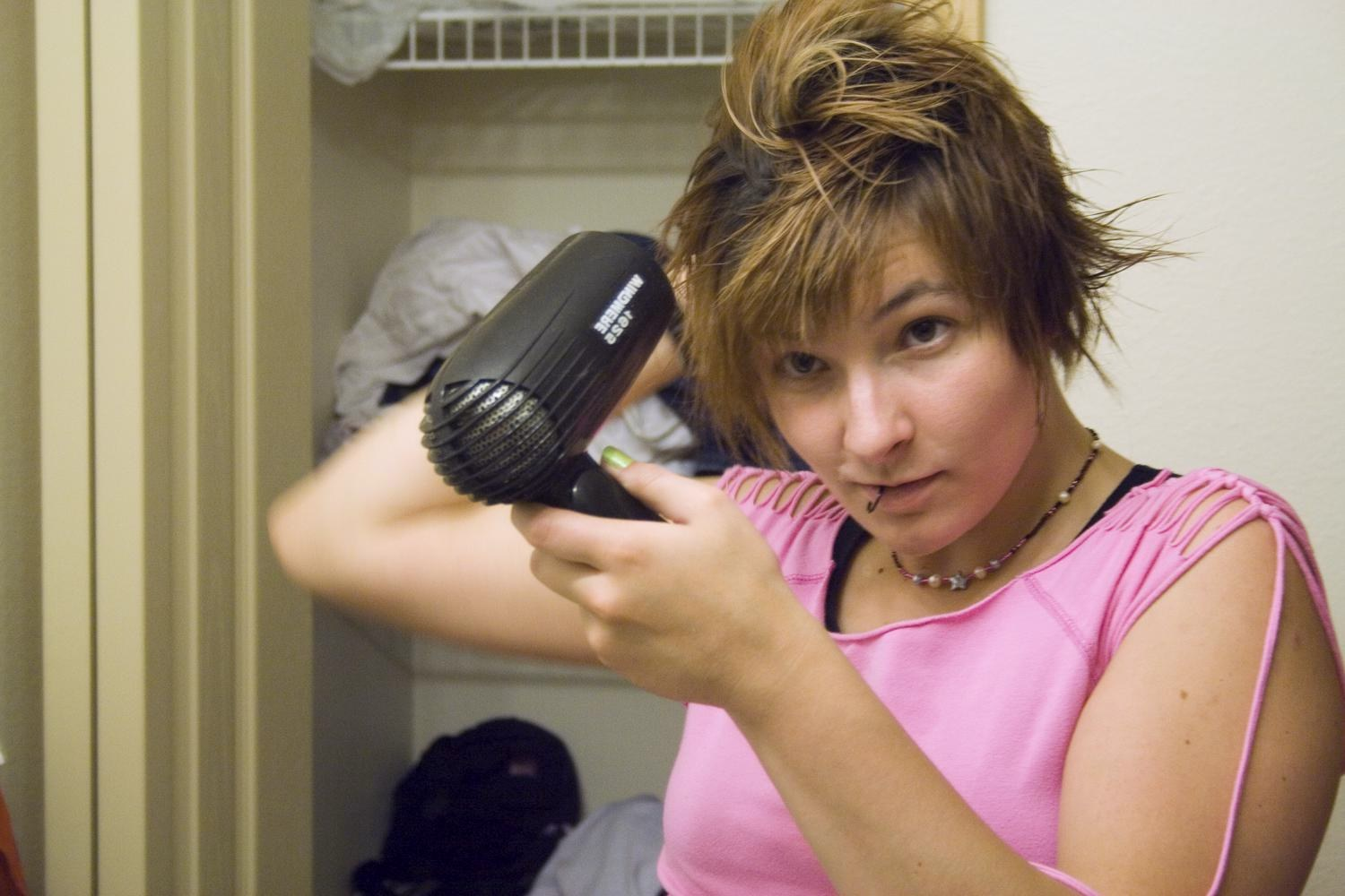 Woman styling her hair with a blowdryer after a haircut.